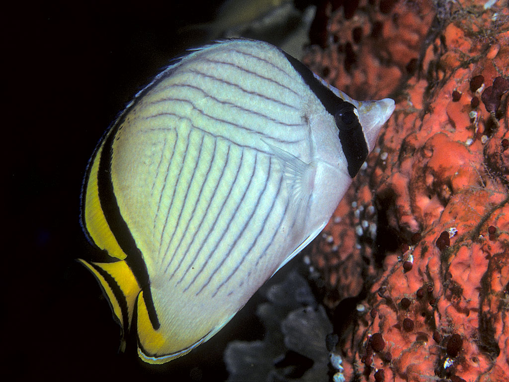 Chaetodon vagabundus, Vagabond butterflyfish. Underwater photograph, Pemuteran, Bali, Indonesia.